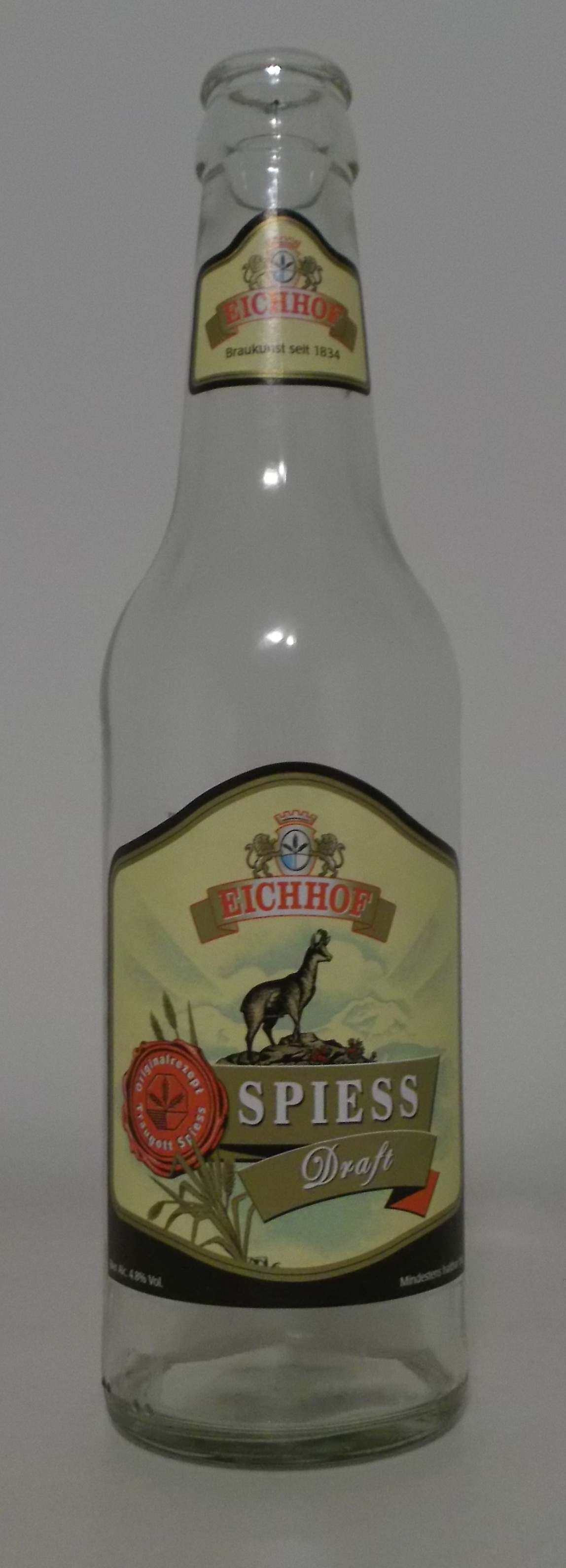 A beer bottle of Eichhof Spiess Draft